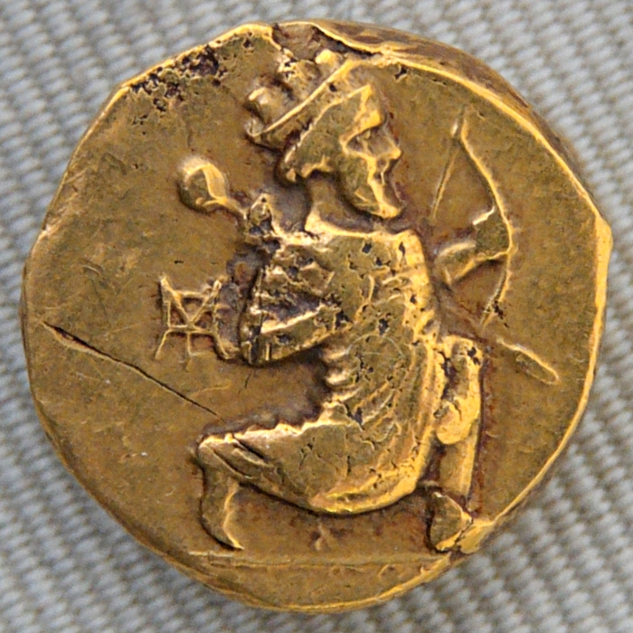 Double daric of Artaxerxes II, Babylonia, ca. 330–300 BC; obverse: Persian king running holding a bow.